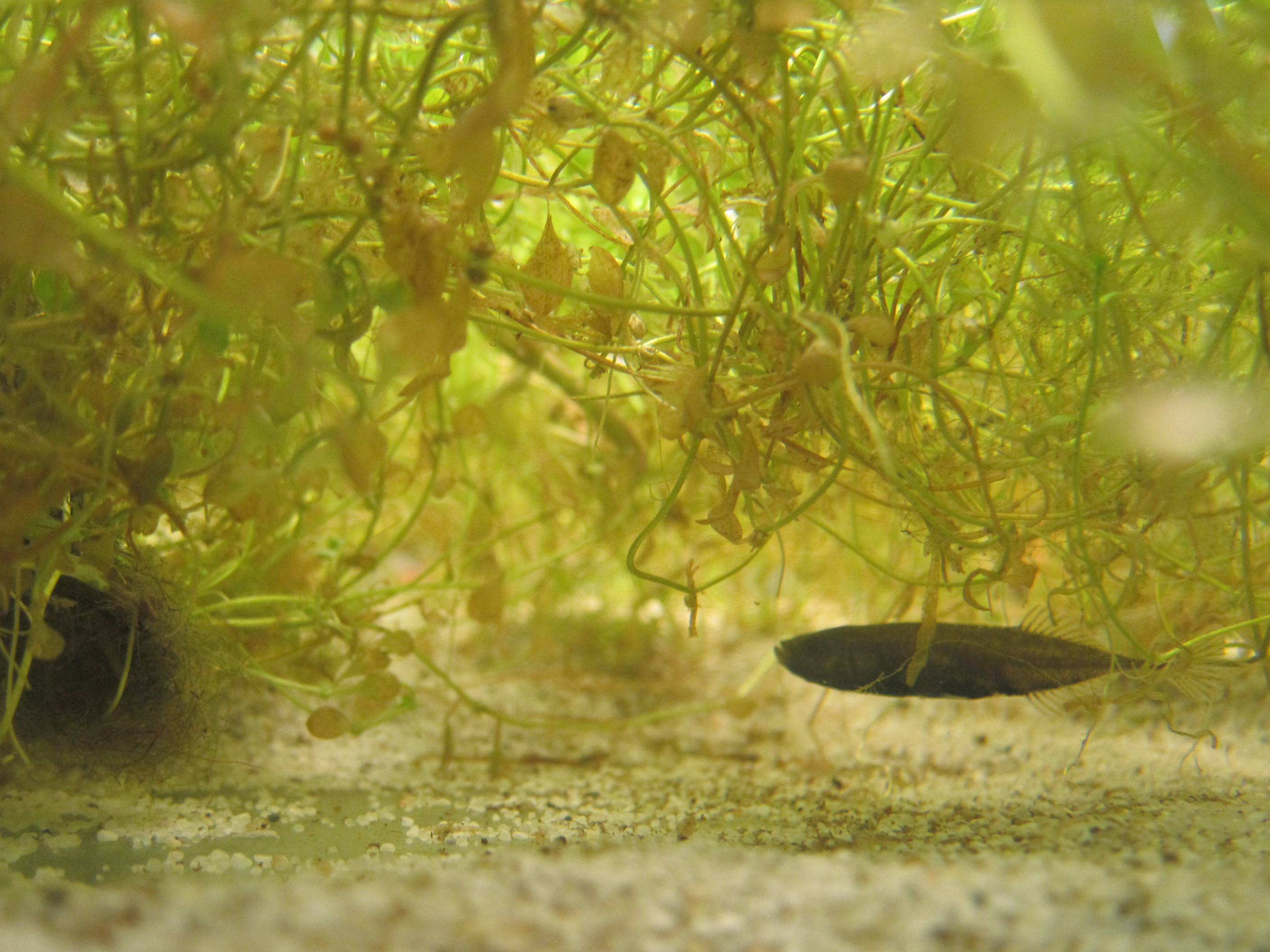 Ninespine stickleback (Pungitius pungitius), also called ten-spined stickleback.